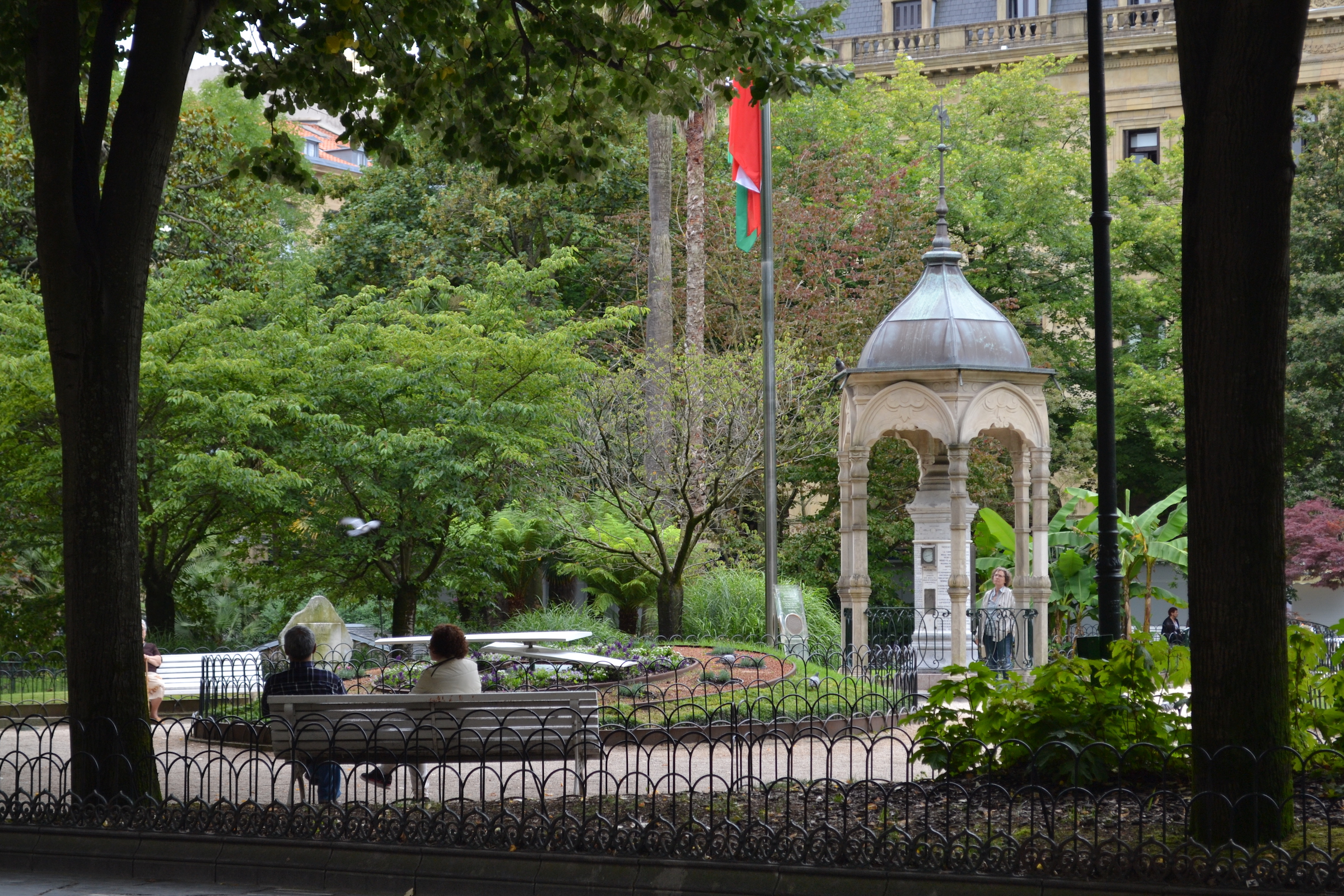 Gipuzkoa Plaza in Donostia-San Sebastian.